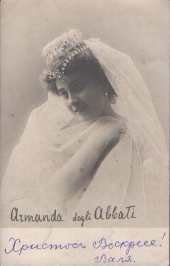 Postcard portrait of Italian opera singer Armanda degli Abbati. The card was mailed and postmarked in 1903. See [1].